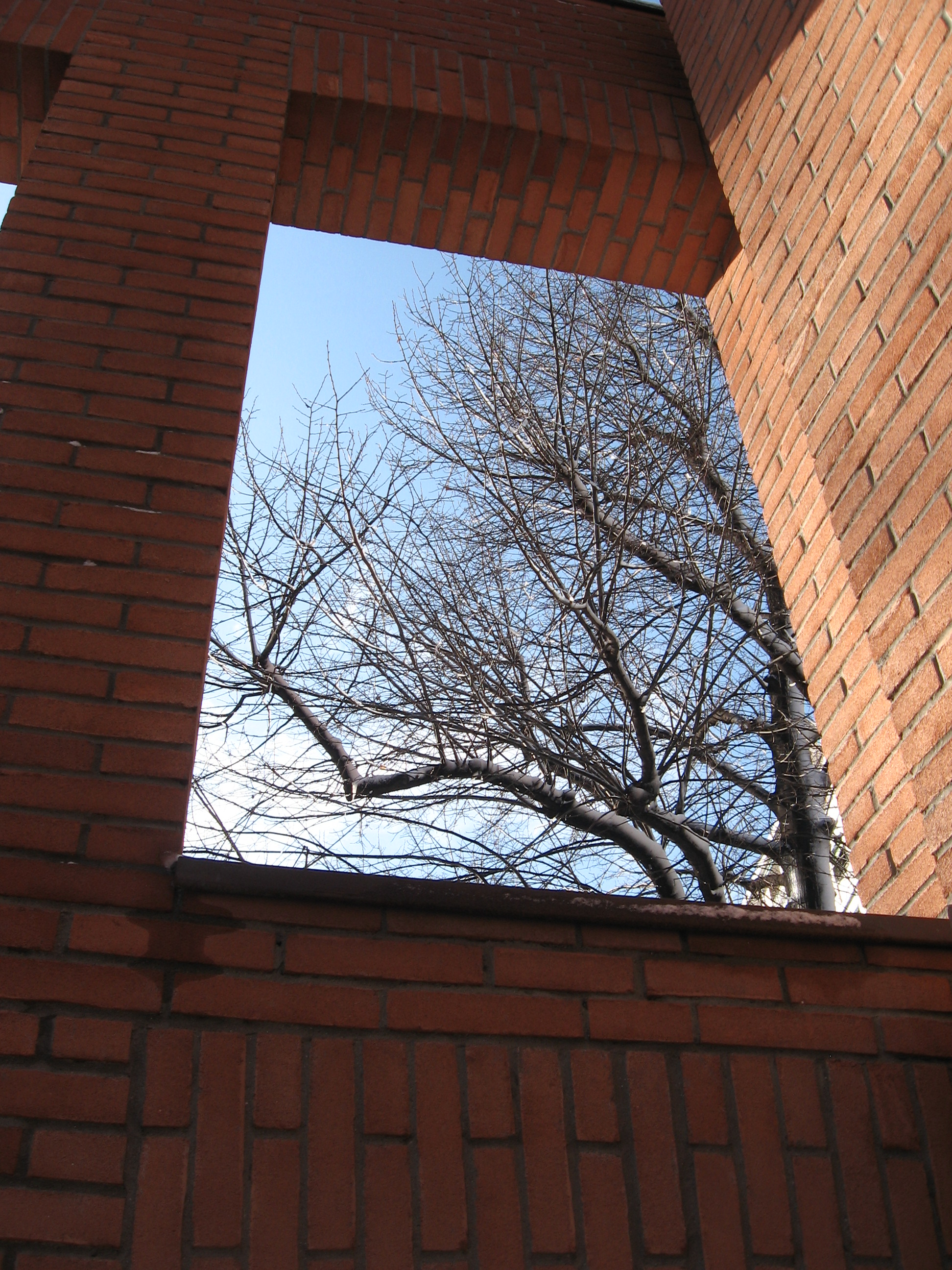 Per Kirkeby, Opera per Torino; Torino, largo Orbassano